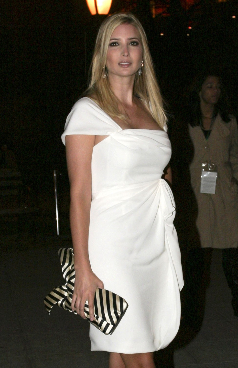 Ivanka Trump at a Vanity Fair party.